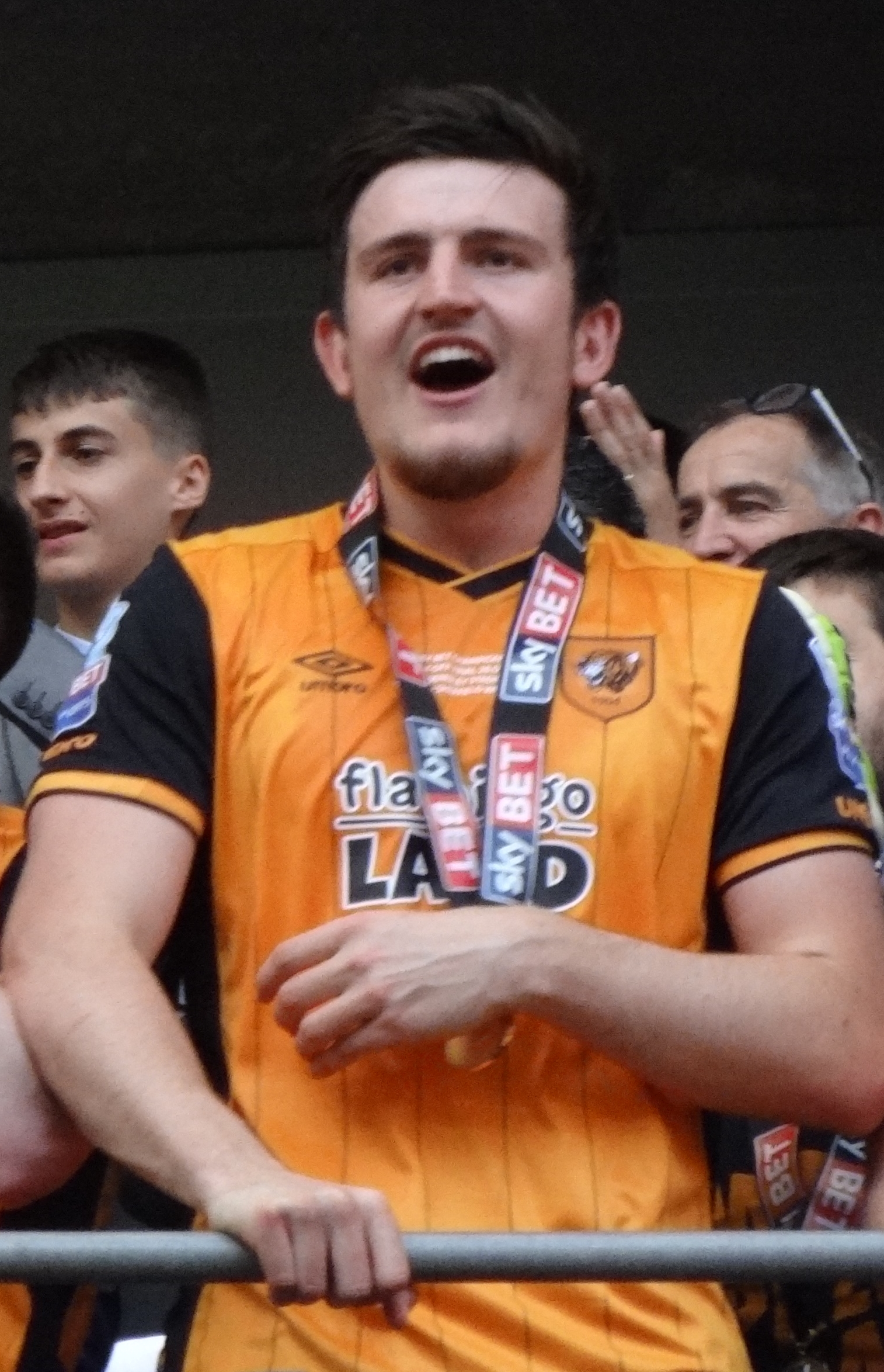 Harry Maguire after playing for Hull City against Sheffield Wednesday at Wembley Stadium, London on 18 May 2016